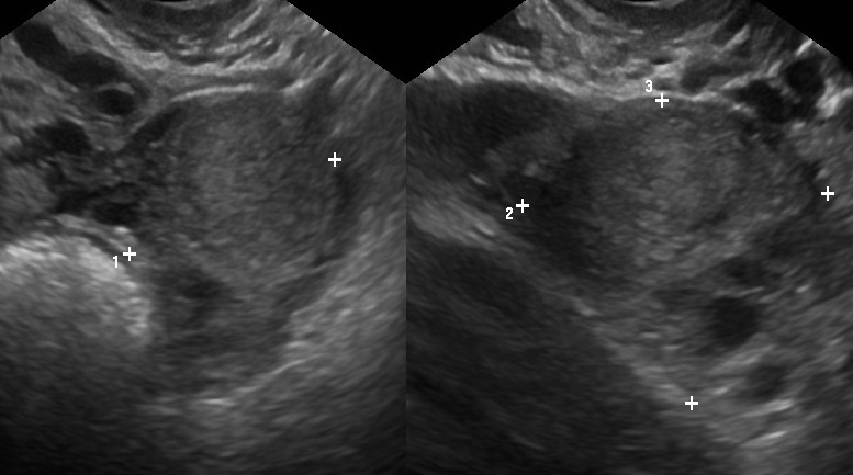 ?endometrioid cyst in ultrasound (no surgical confirmation)